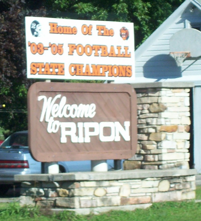 The sign for Ripon, Wisconsin, USA while traveling on westbound Wisconsin Highway 23.